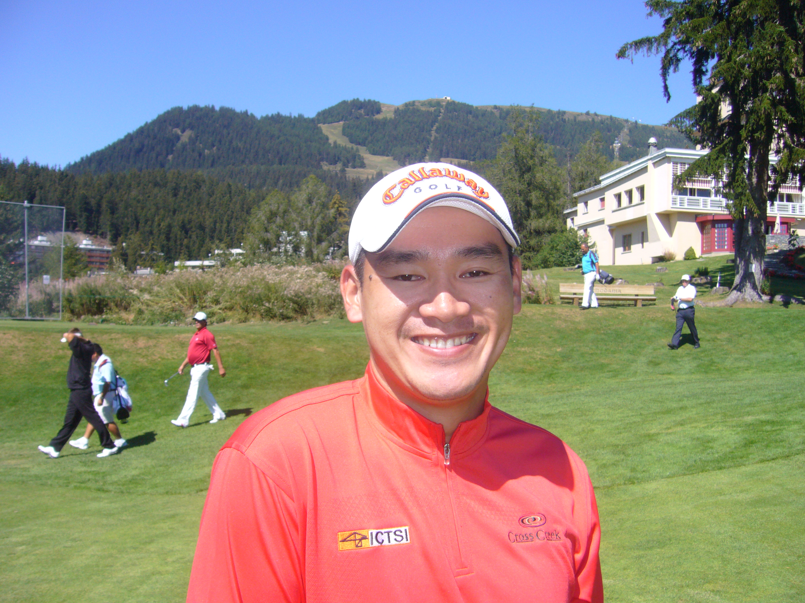 Angelo Que, professional golfer from the Philippines